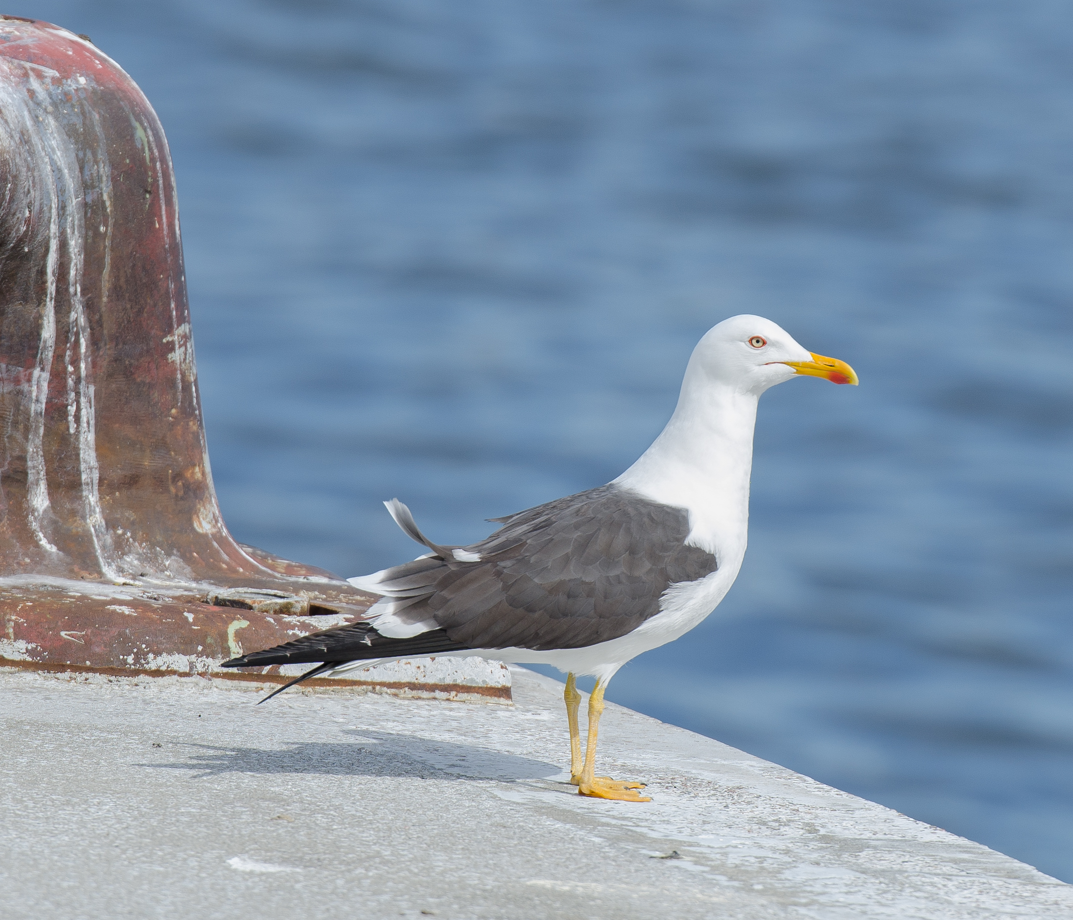 Lesser Black-backed Gull (Larus fuscus). Finnboda, Nacka, Sweden.